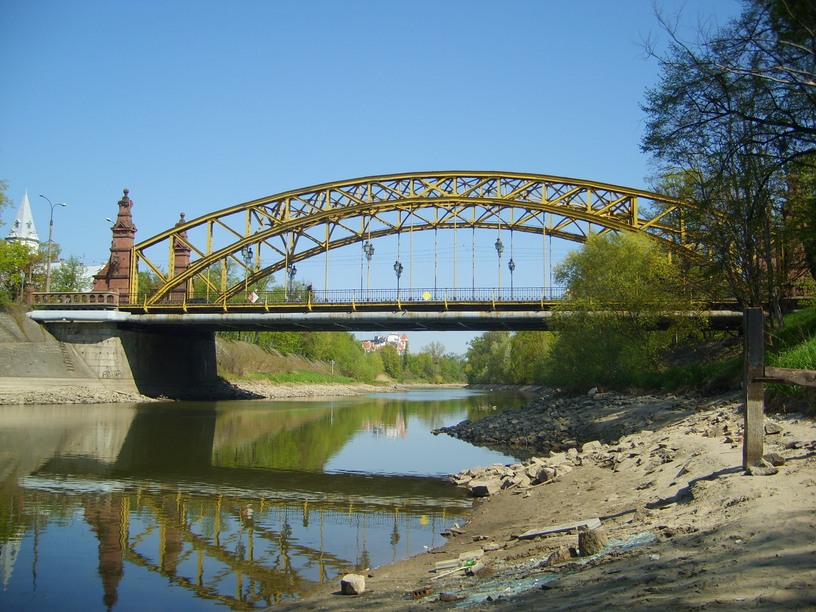 Zwierzyniecki Bridge in Wrocław